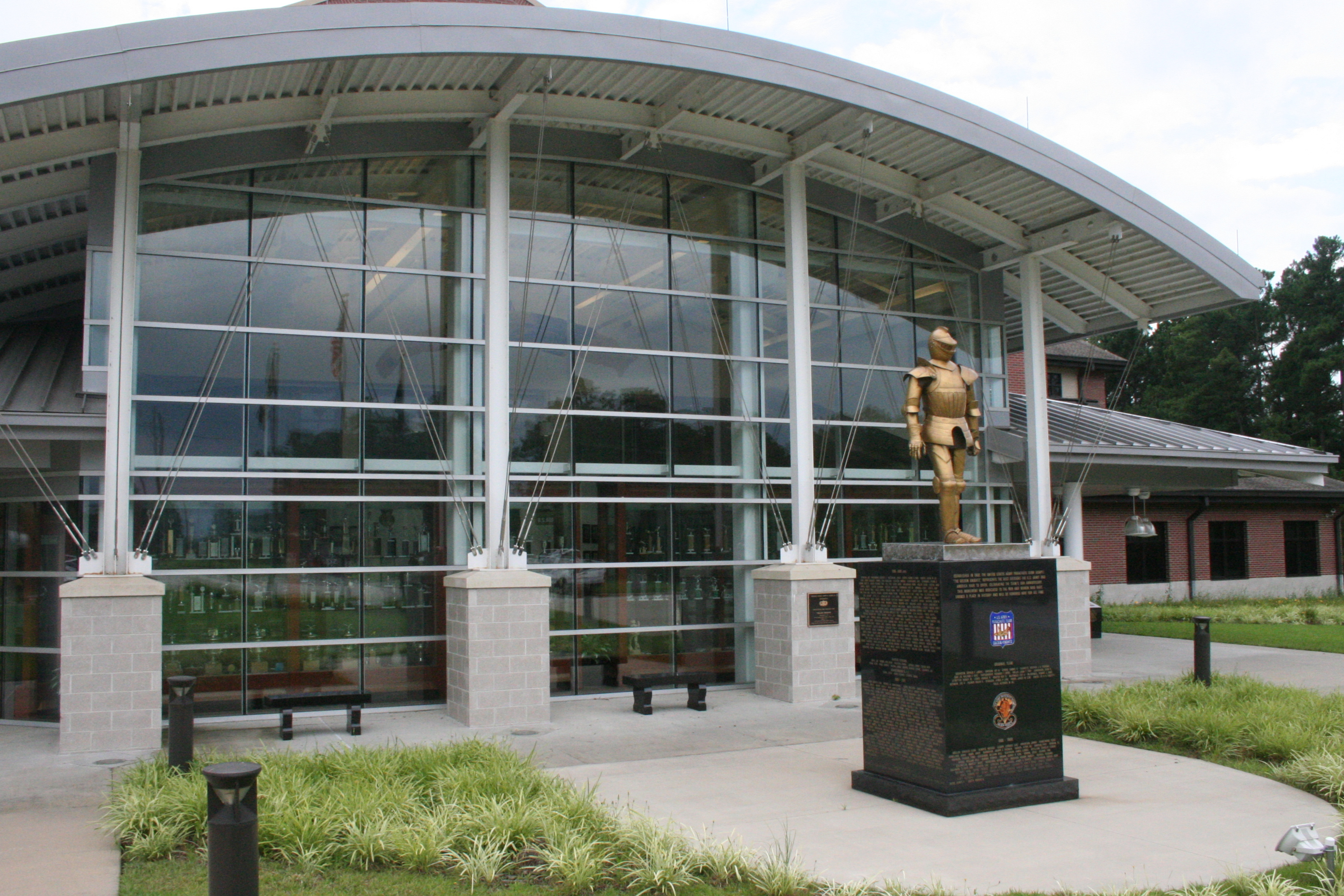 Golden Knights headquarters building at Fort Bragg, NC